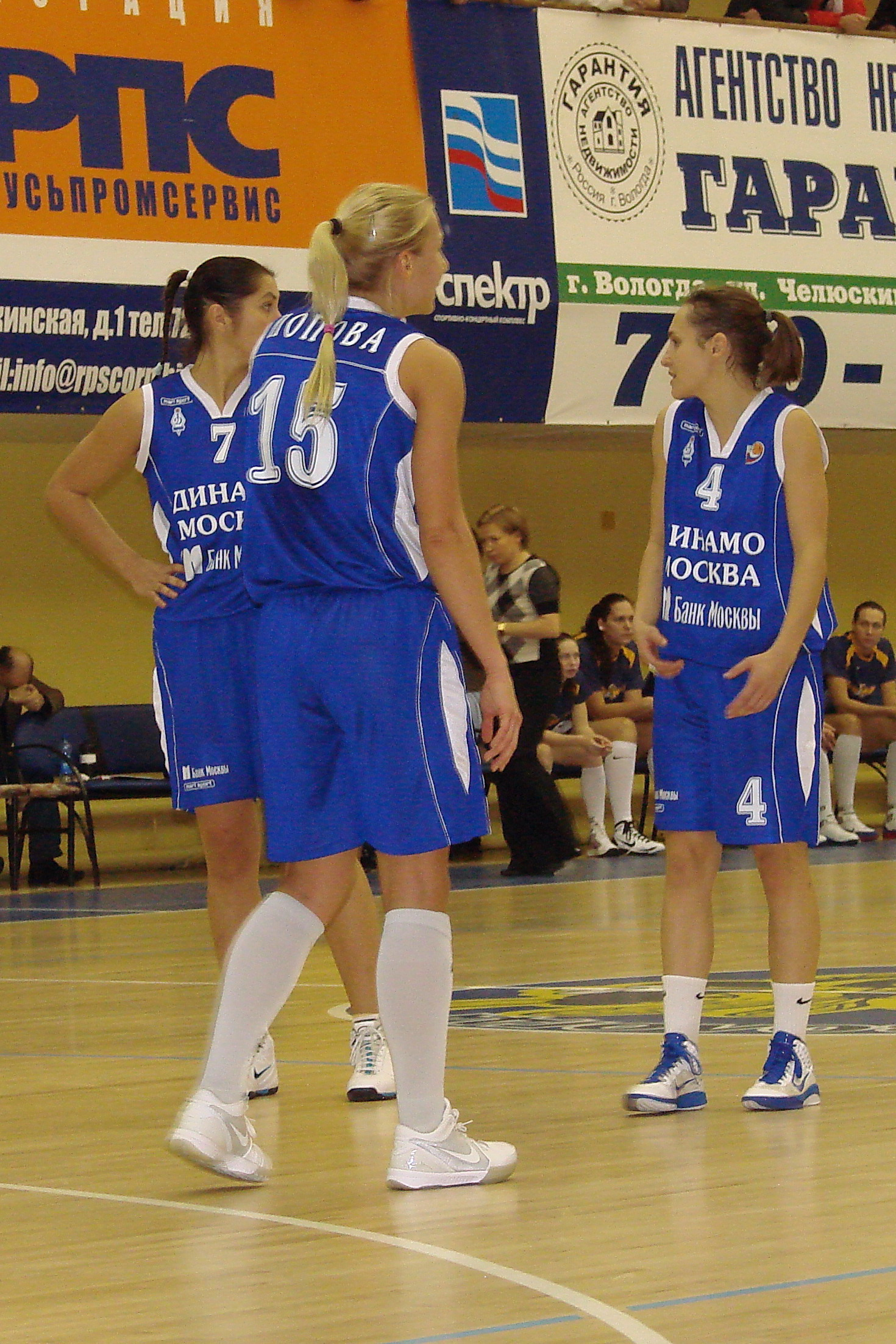 Russia, basketball club «Dinamo» (Moscow)